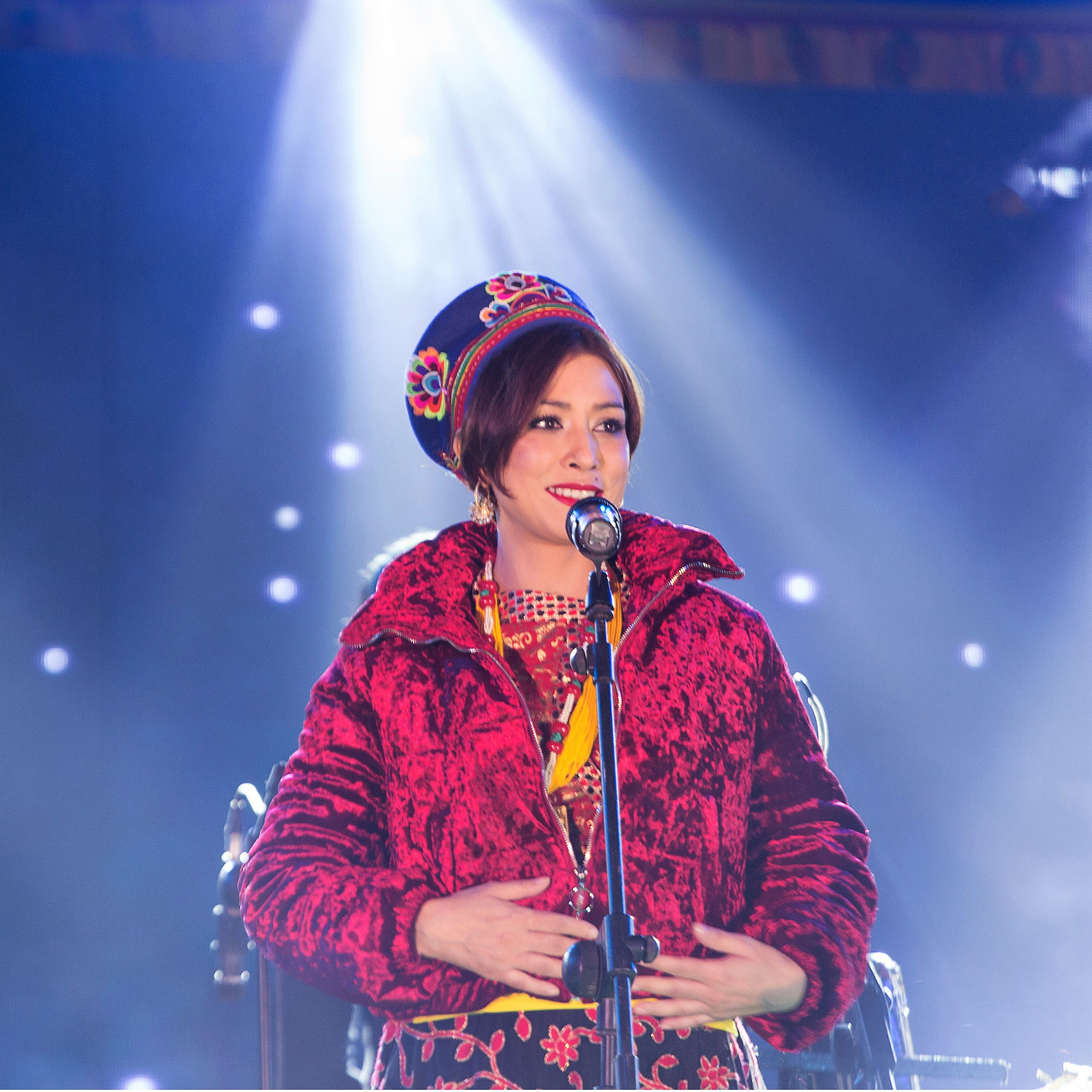 Navneet-Aditya-Waiba-Live performance